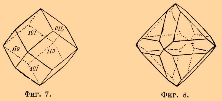 Illustration from Brockhaus and Efron Encyclopedic Dictionary (1890—1907)